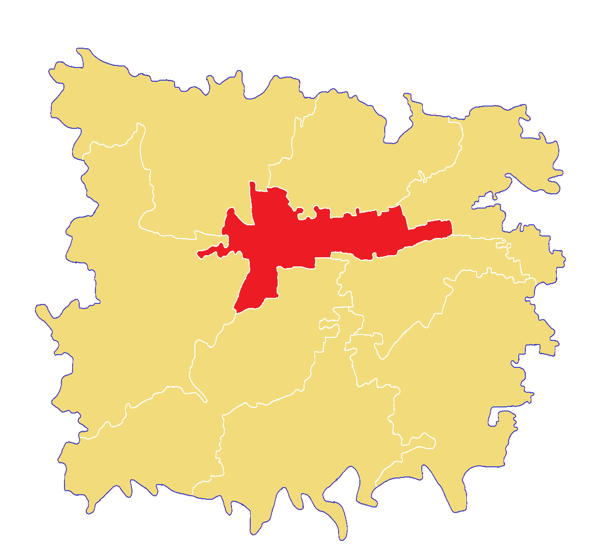 Location of Jagannathpur Municipality in Jagannathpur Upazila